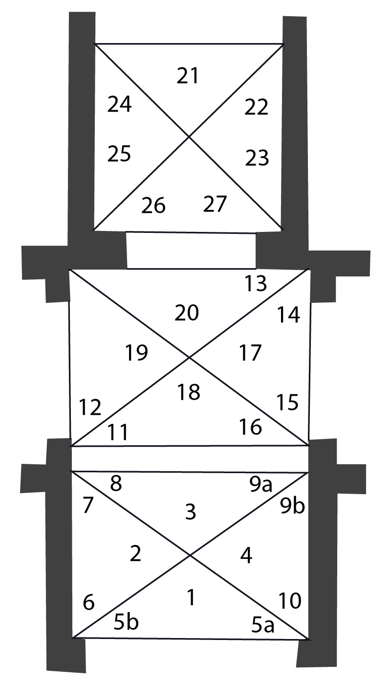 Brönnestad church, Scania, Sweden.